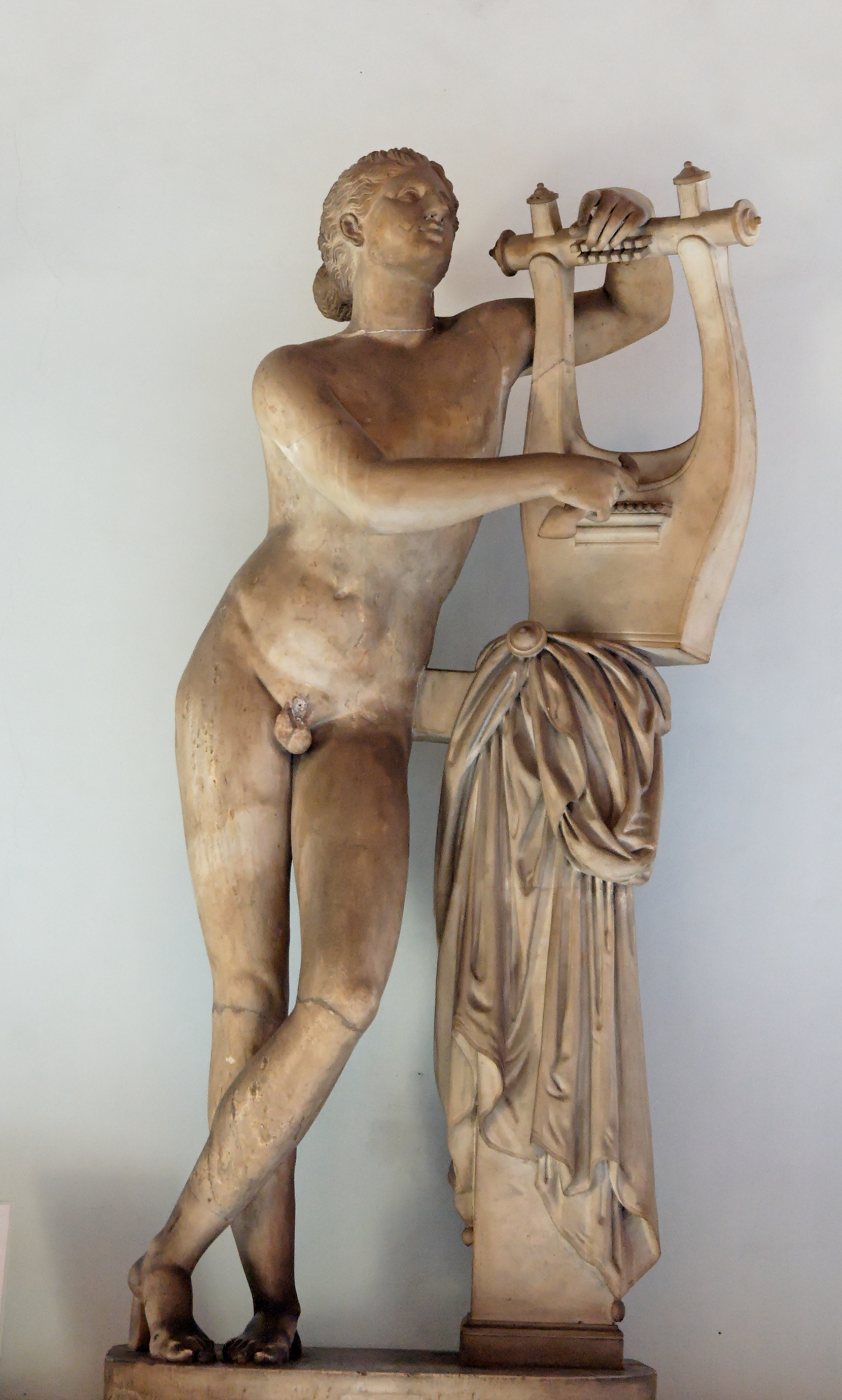 Statue of Pothos, restored as Apollo kitharoidos. Roman copy after a Greek original.